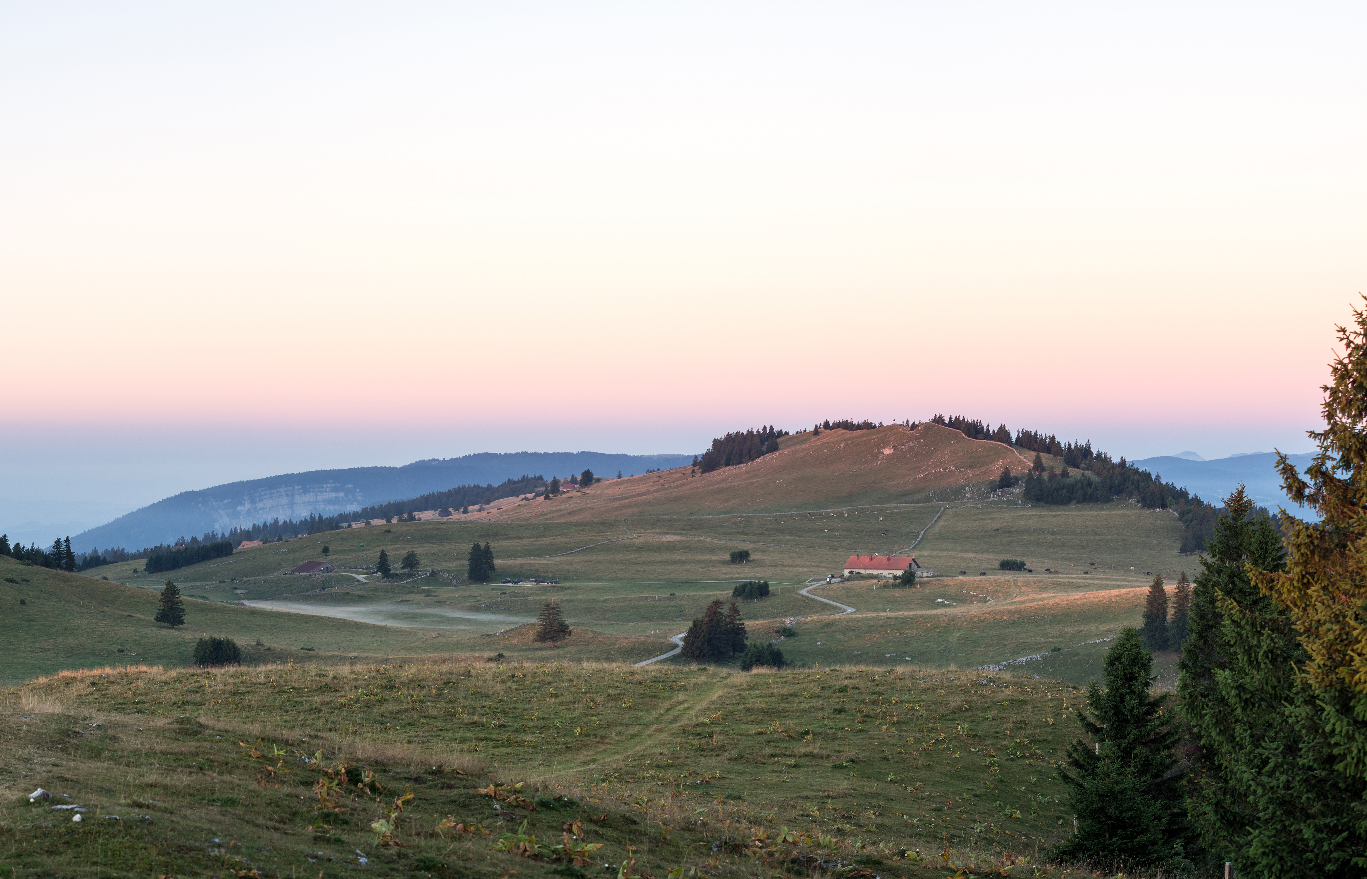 View of Mont Racine (right) and Rochers des Miroirs (left, in the background) at sunrise.